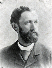 Benjamin A. Enloe, US Representative from Tennessee